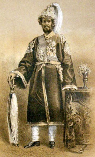 Jung Bahadur Kunwar Ranaji (1817-1877), Eighth Prime Minister of Nepal